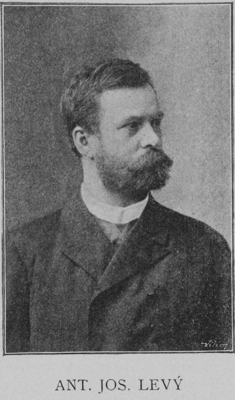 Portrait of Antonín Lewý (also known as Antonín Josef Levý, 1845 - 1897), Czech painter of landscapes.